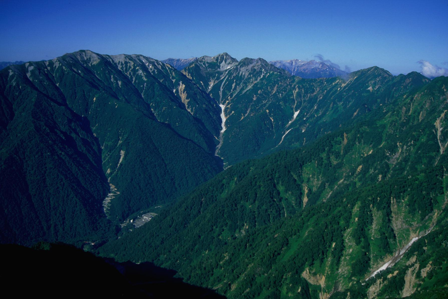 Mount Renge and Mount Harinoki seen from Mount Jii in Hida Mountains, Japan.